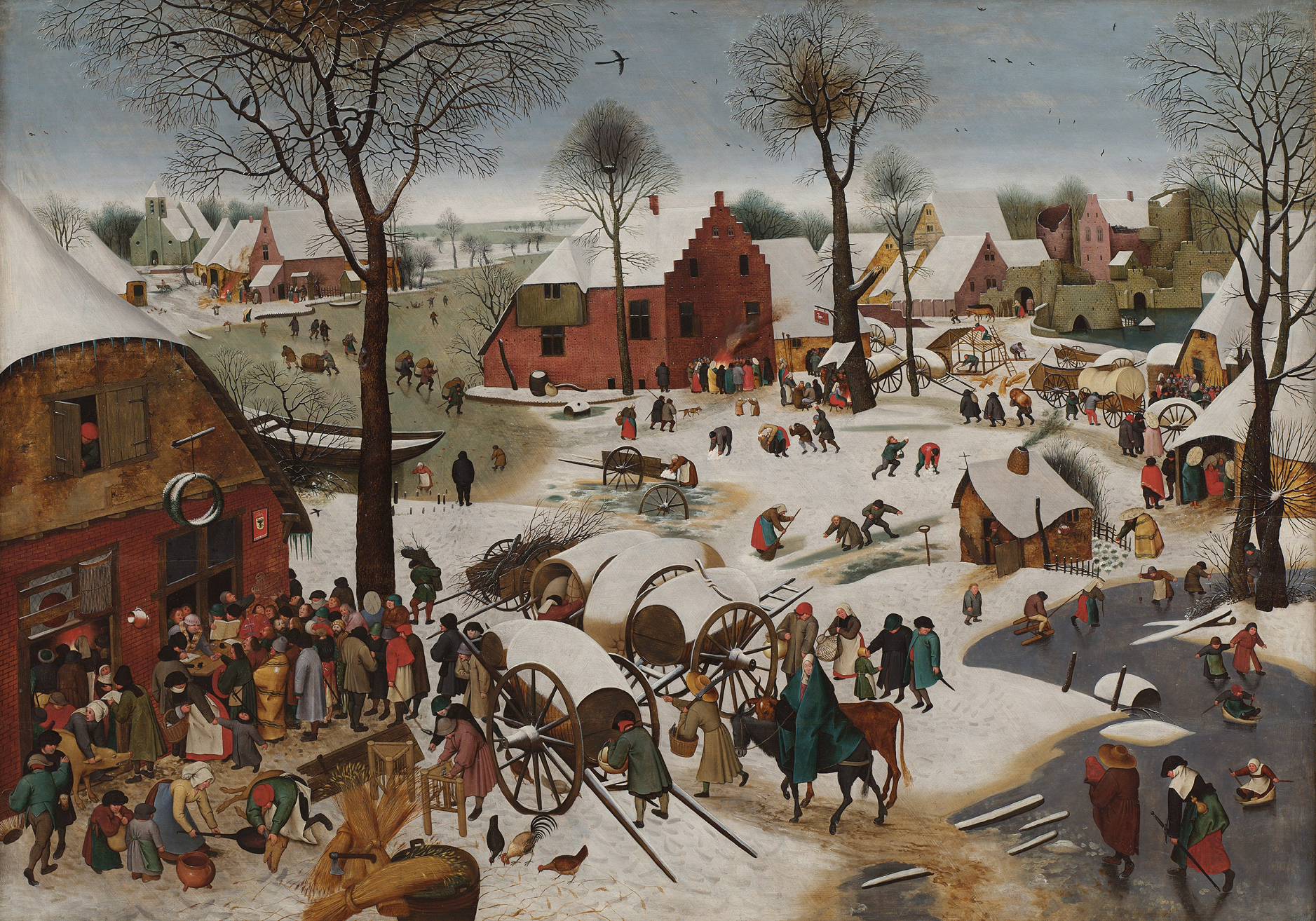 The Census at Bethlehem. Painted from a model by the artist's father, Pieter Bruegel (I), in the Royal Museums of Fine Arts of Belgium in Brussels. Other versions by Pieter Brueghel (II) are in Caen, Lille and Brussels.